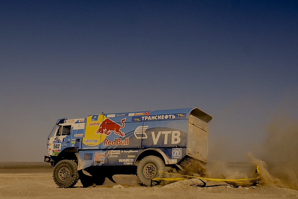 Truck of the #502 team: Firdaus Kabirov, Aydar Belyaev and Andrey Mokeev on a KAMAZ 4326 truck.